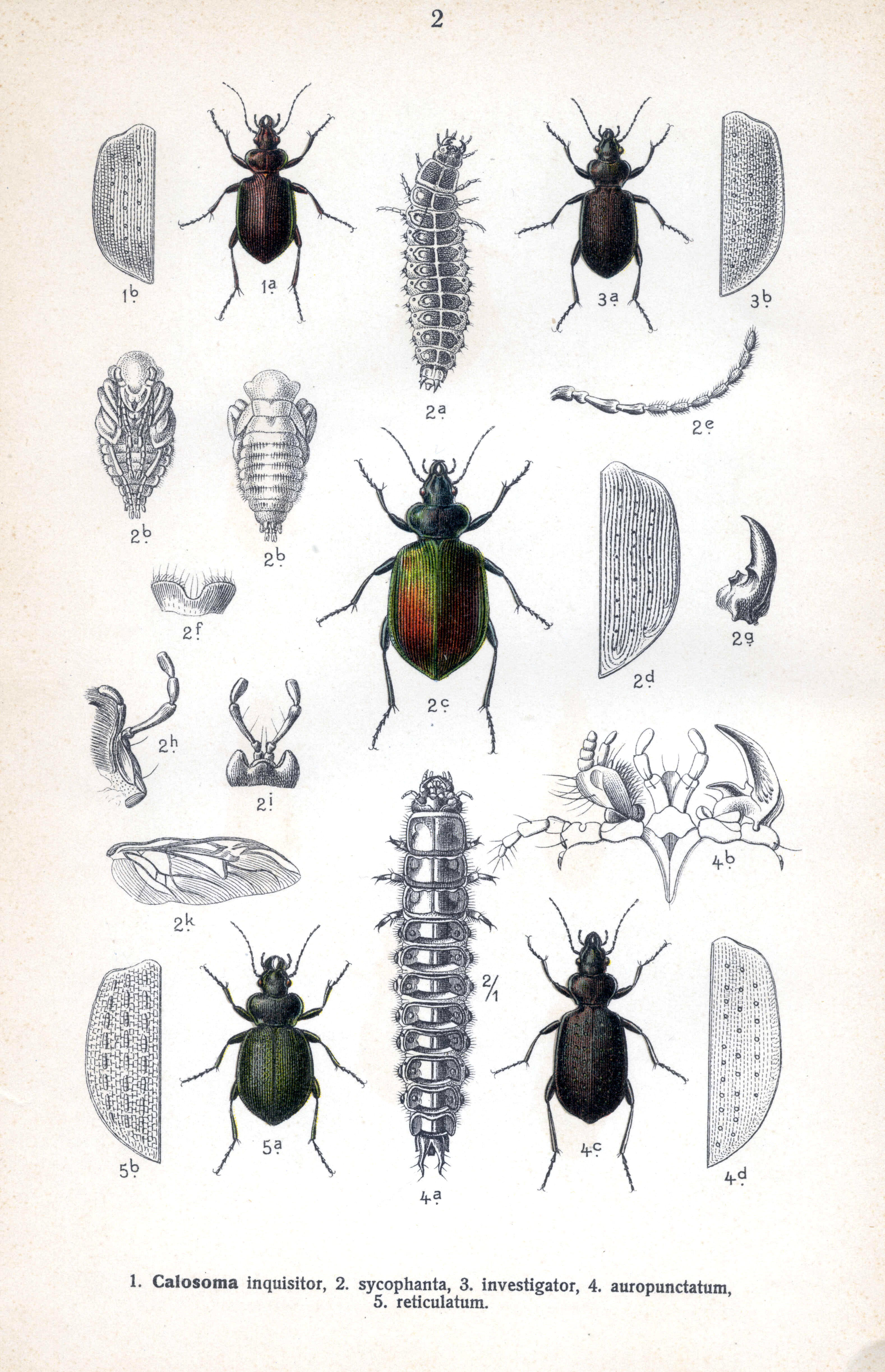 See image for index to numbers. Calosoma inquisitor L. = Calosoma inquisitor (Linnaeus, 1758) (1a: adult, dorsal view, 1b: elytra pattern) [Calosoma] sycophanta L. = Calosoma sycophanta (Linnaeus, 1758) (2a: larva, dorsal view, 2b: pupa, ventral (left) and dorsal view, 2c: adult, dorsal view, 2d: elytra pattern, 2e: antenna of adult, 2f: labrum of adult, 2g: mandible of adult, 2h: maxilla of adult, 2i: labium of adult, 2k: hindwing) [Calosoma] investigator Illig. = Calosoma investigator (Illiger, 1798) (3a: adult, dorsal view, 3b: elytra pattern) [Calosoma] auropunctatum Herbst. = Calosoma auropunctatum (Herbst, 1784) (4a: larva, dorsal view, 4b: mouthparts of larva, partial view, 4c: adult, dorsal view, 4d: elytra pattern) [Calosoma] reticulatum Fbr. = Calosoma reticulatum (Fabricius, 1787) (5a: adult, dorsal view, 5b: elytra pattern)